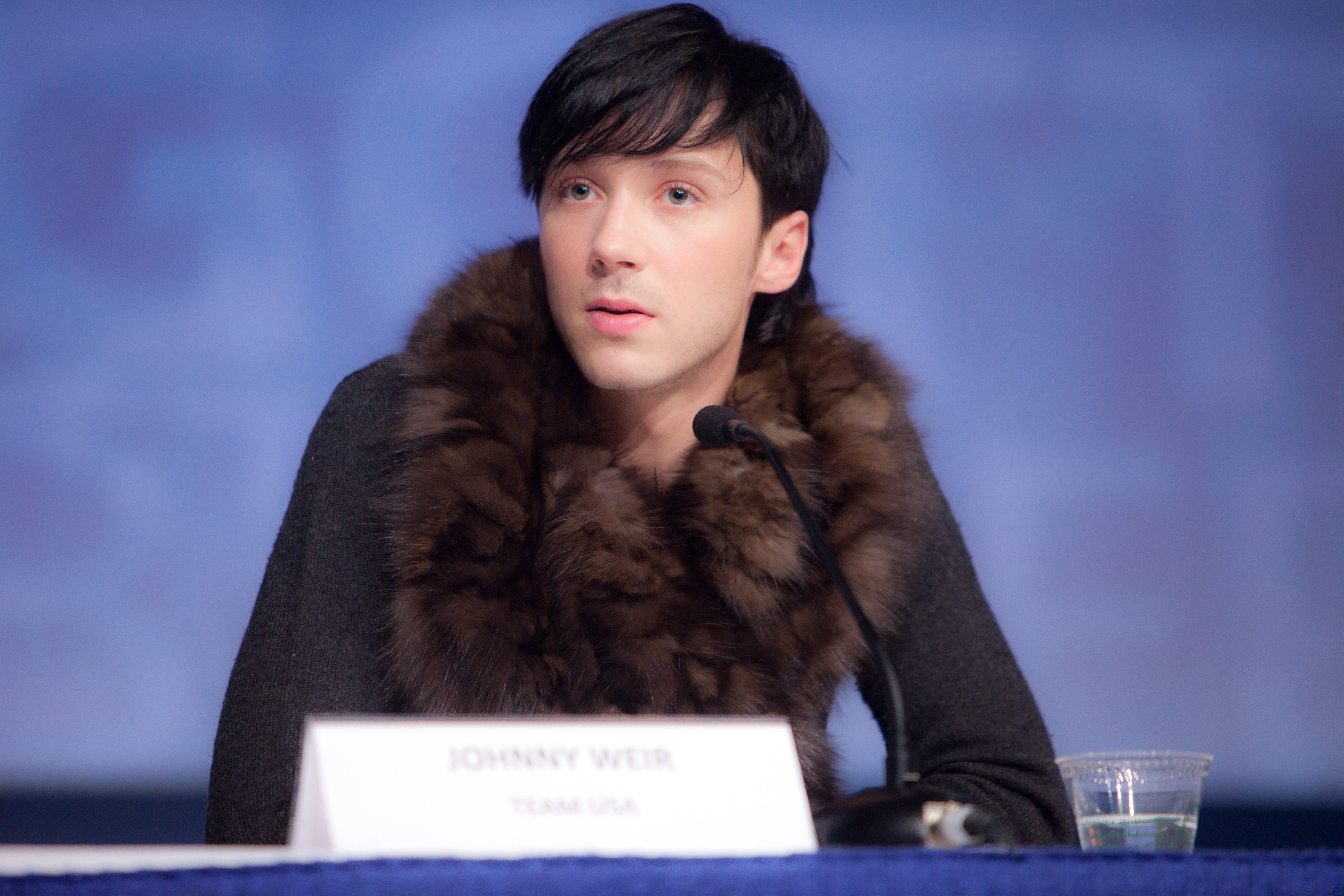 Johnny Weir @ Olympic Athletes Village - Vancouver British Columbia